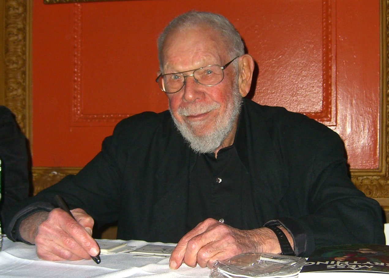 Comics creator Al Jaffee at the Comic New York symposium at Columbia University's Low Memorial Library on March 24, 2012. This photo was created by Luigi Novi. It is not in the public domain, and use of this file outside of the licensing terms is a copyright violation.